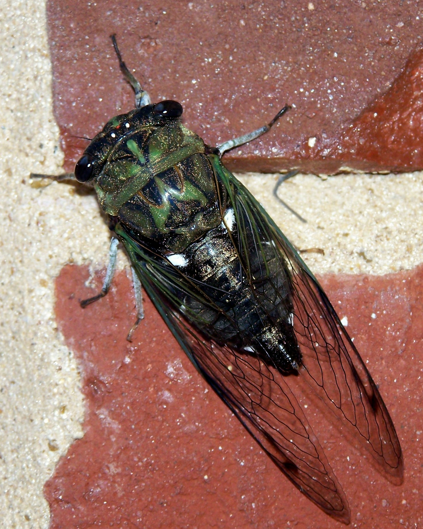 Missouri Cicada